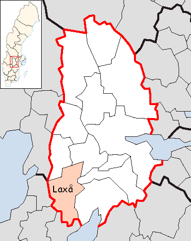 Laxå Municipality in Örebro County Designd by me, based on Image:Örebro County.png